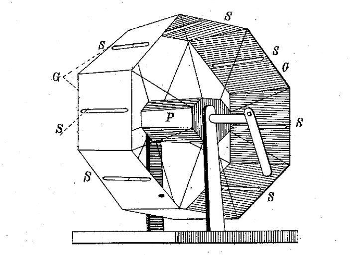 Czermak's 1855 Stereophoskop